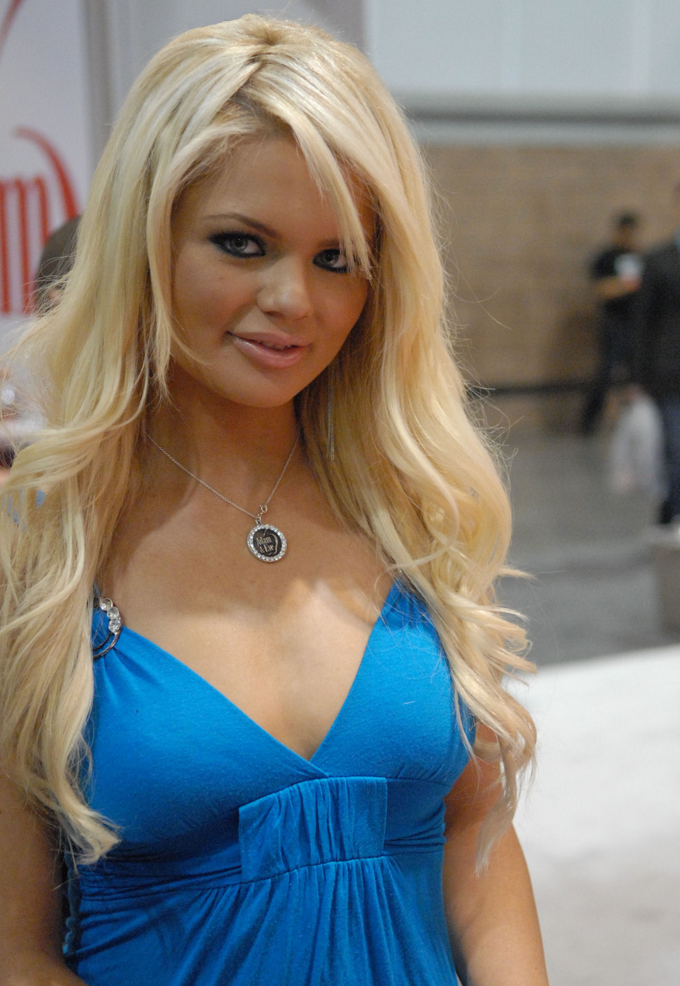 Alexis Ford at the 2010 AEE convention